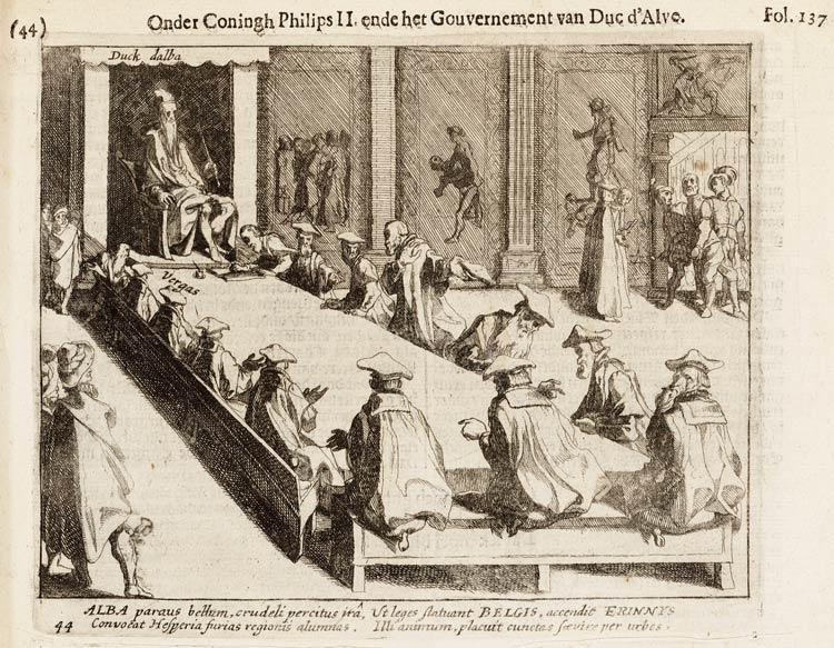 Duke of Alba, presiding over the Council of Troubles, with names indicating the Duke and Vergas.